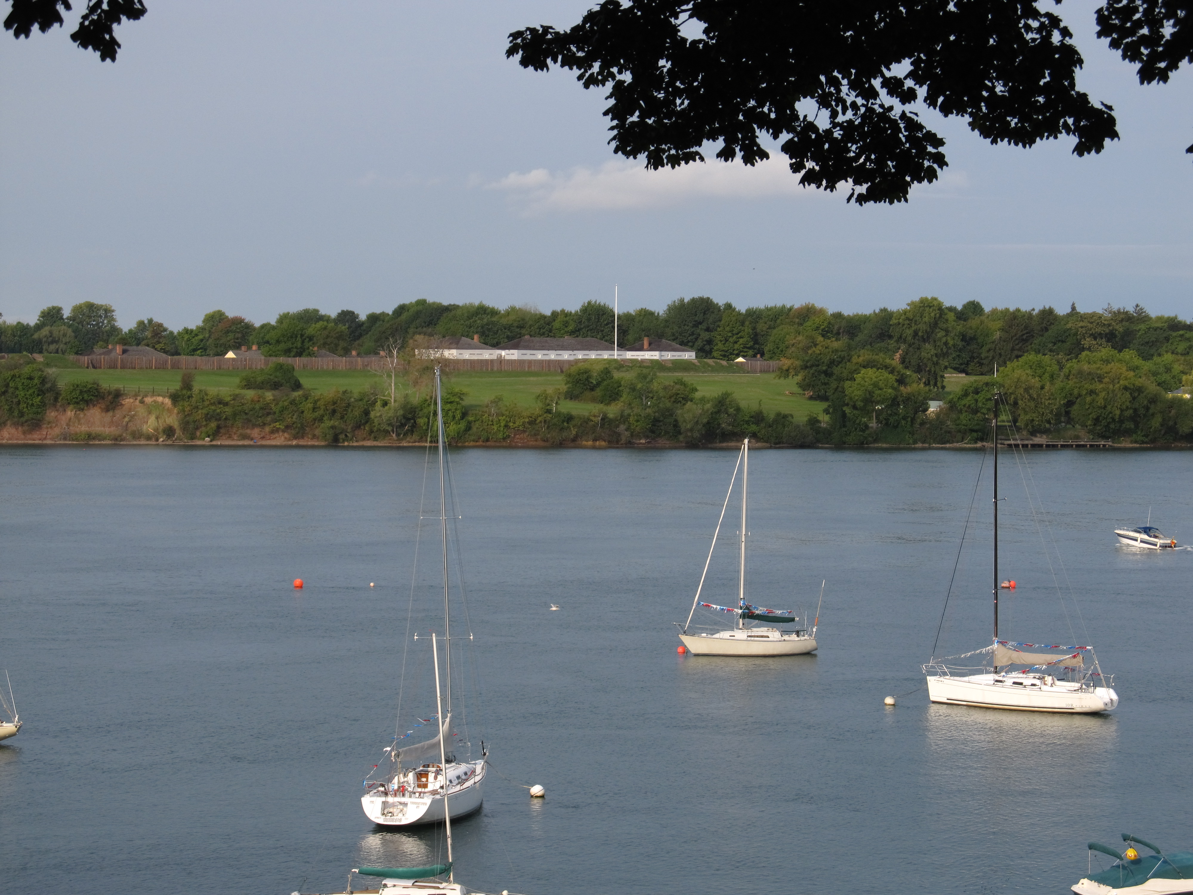 Fort George National Historic Site is a historic military structure at Niagara-on-the-Lake, Ontario, that was the scene of several battles during the War of 1812. The fort consists of earthworks and palisades, along with internal structures, including an officer's quarters, blockhouses to accommodate other ranks and their families, and a stone powder magazine, which is the only original building on the site. Opposite the fort, across the Niagara River, stands Fort Niagara in New York, which can be seen from Fort George's ramparts. Fort George was built by the British Army after Jay's Treaty (1796) required Britain to withdraw from Fort Niagara. The new fort was completed in 1802 and became the headquarters for the British Army and the local militia. Fort George was captured by U.S. forces in May 1813 at the Battle of Fort George. The American Army used the fort as a base to invade Upper Canada, but were repelled at the Battles of Stoney Creek and Beaver Dams. The fort was retaken by the British Army in December of that year after U.S. forces abandoned the British side of the river. The fortification was used by the Canadian Army as a military training base during the First World War and through the Second World War under the name Camp Niagara. The grounds were eventually abandoned by the military in 1965. The site is now a National Historic Site of Canada, maintained by Parks Canada. The fort is open to visitors from April to October. The staff maintains the image of the fort as it was during the early 19th century, with period costumes, exhibits, and displays of that time. They train summer students in the infantry tactics and firing drills of the 41st regiment from the War of 1812. They also have the 41st Fife and Drum Corps which provides an example of how the fife and drums were used.